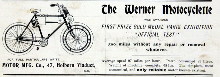 Motor Mfg Co. advert for Werner Motocyclette dated July 1900